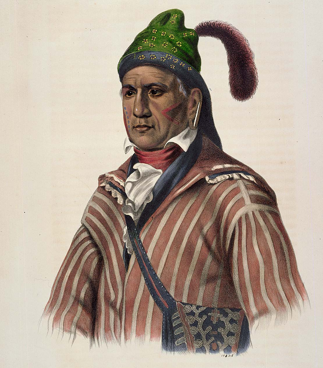 ME-NA-WA. A CREEK WARRIOR, from History of the Indian Tribes of North America